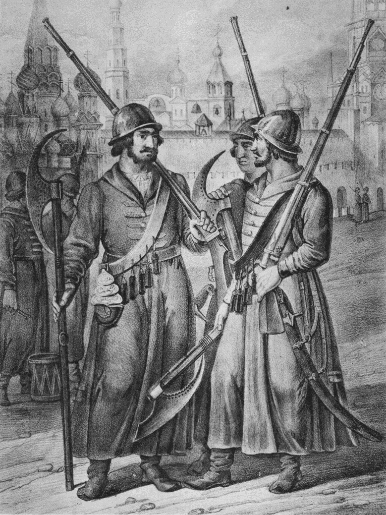 17th-century engraving of the Streltsy. Illustration (lithography) to a book by Viskovatov published in 1841-1861.